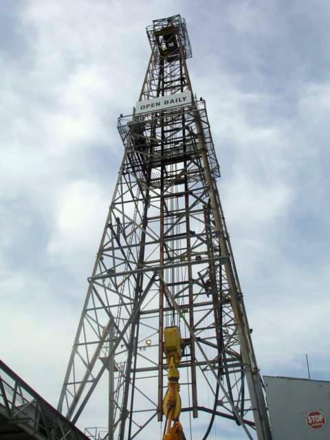 derrick of Ocean Star Offshore Oil Rig & Museum